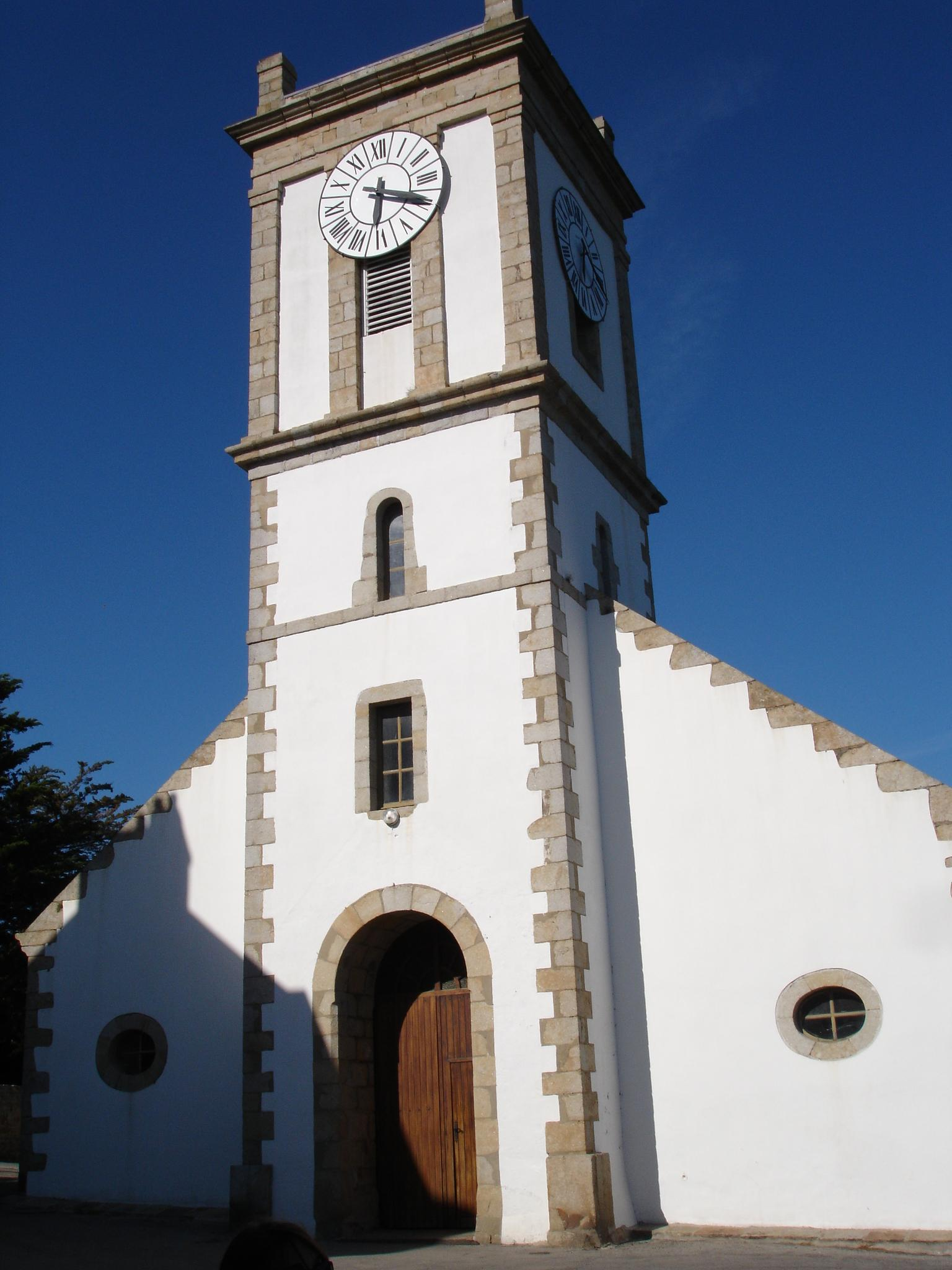 France, Morbihan, Ile-aux-Moines, Saint-Michel church